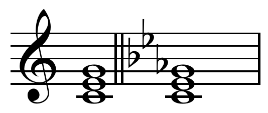 Parallel tonic chords on C. Created by Hyacinth (talk) 06:45, 14 December 2010 using Sibelius 5.